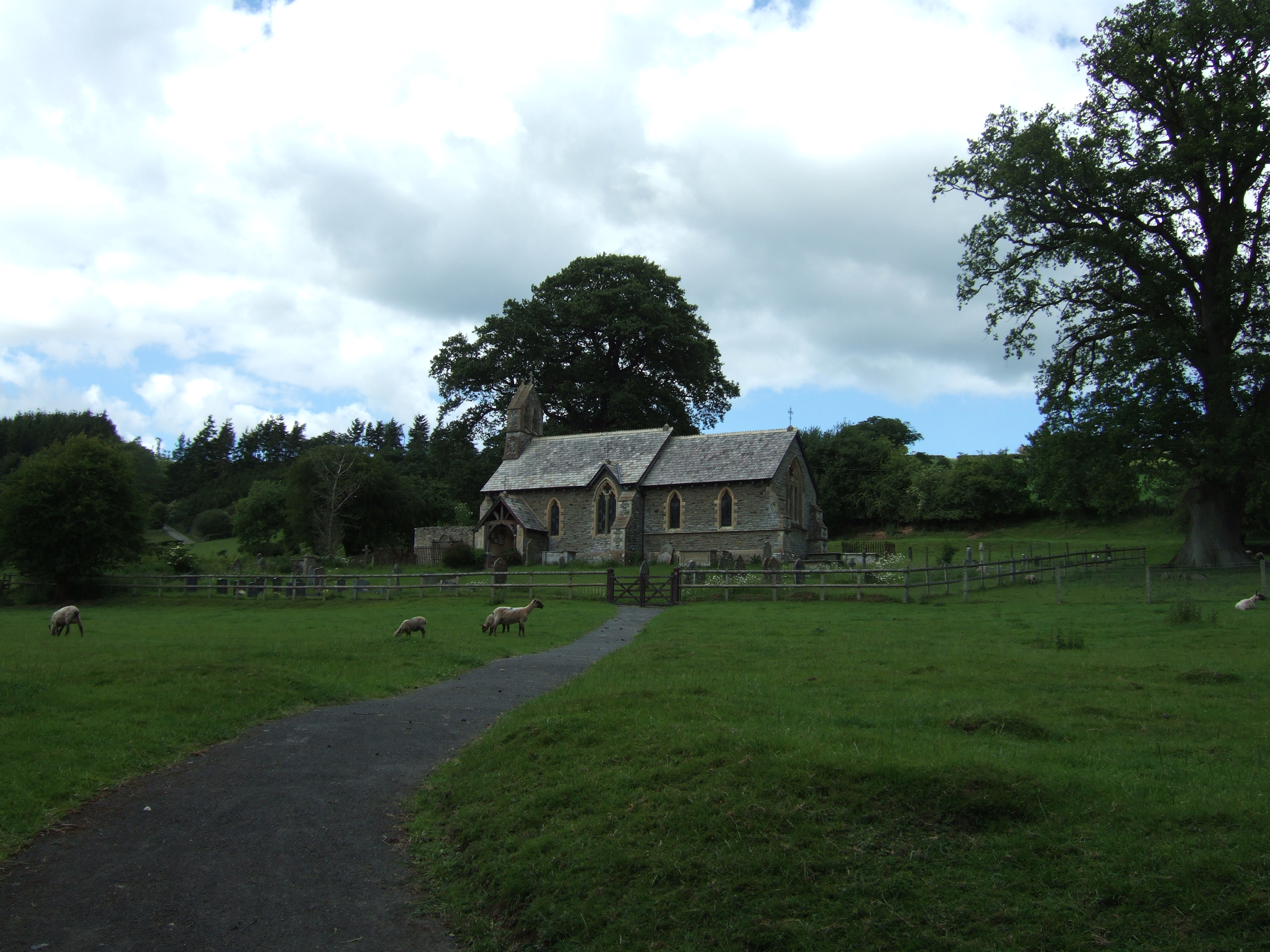 View north across sheep pasture to St Edward's parish church, Hopton Castle in Shropshire, England